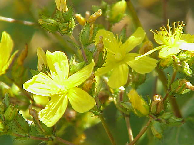 Species: Hypericum tomentosum Family: Hypericaceae Image No. 1